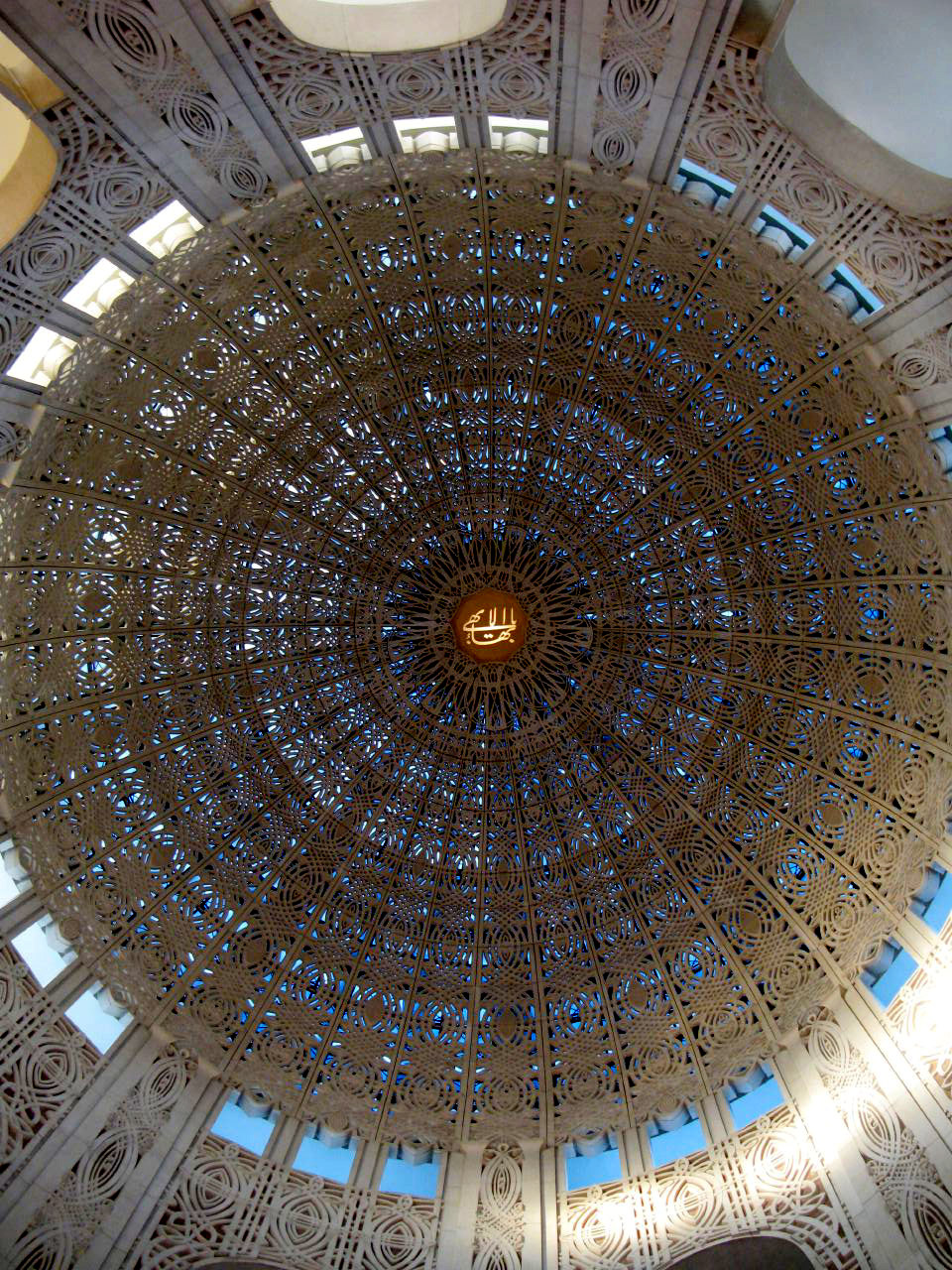 Bahai Temple, North of Chicago